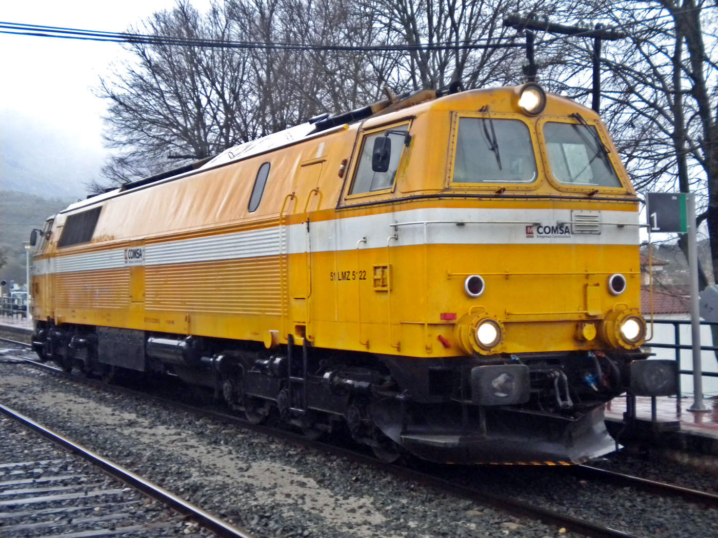 Locomotive MZ III (ex DSB Class MZ) of COMSA at the station of Cortes de la Frontera